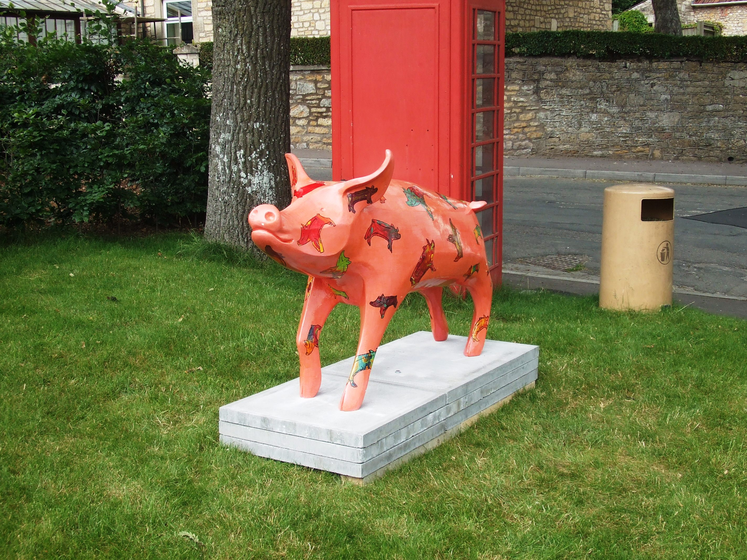 Statue of a pig in Wellow Somerset